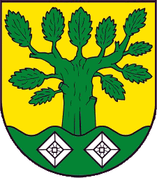 Coat of arms of Samtgemeinde Elm-Asse